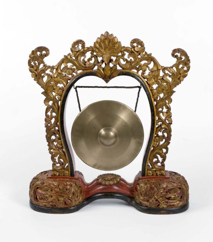 Gong, hanging in a frame, part of the Gamelan Semar Pagulingan